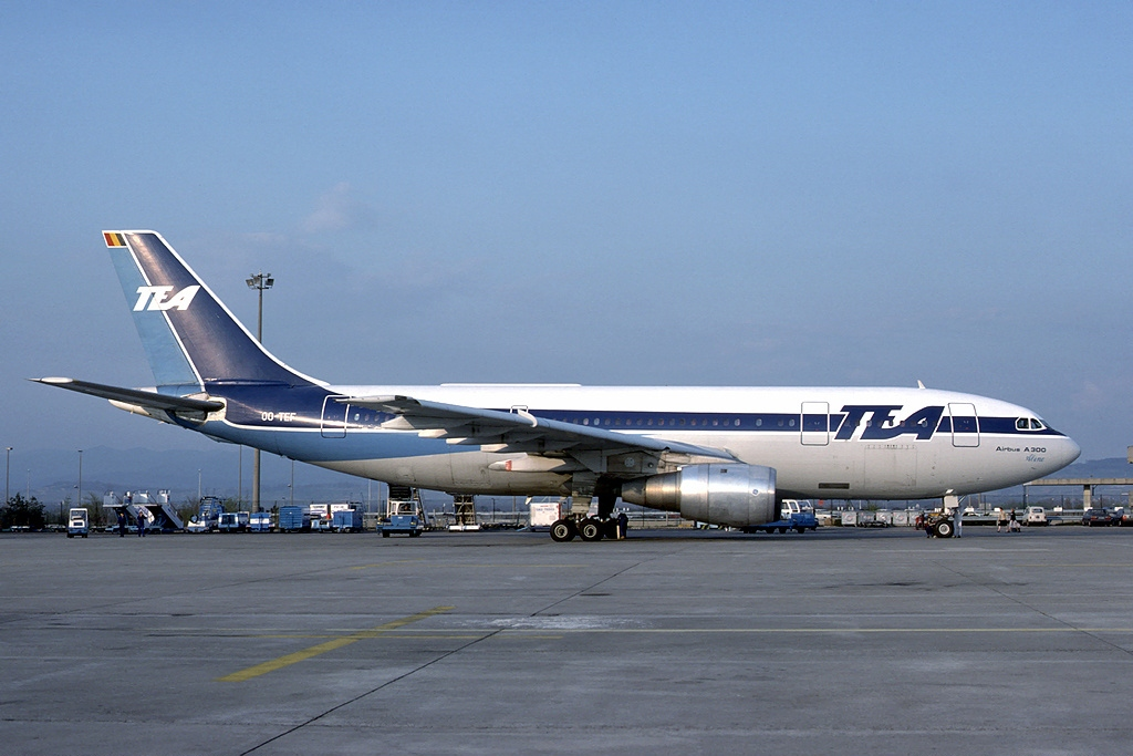 "Aline"